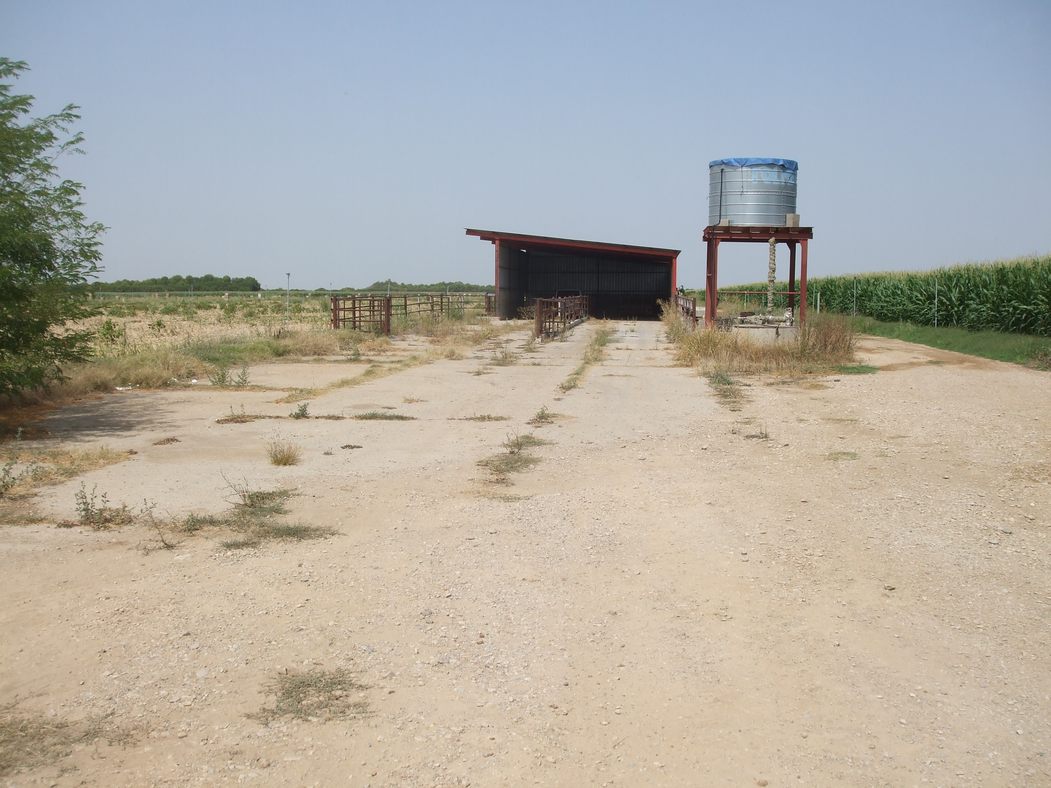 Former runway of Sariñena airfield, looking north a few km south of Sariñena, just 1km north of Albalatillo for use by the republican air force. After the region was conquered by franquist forces in spring 1938 it was used by Germany's Legion Condor, e.g. in spring 1938 by the He-51 squadrons of Jagdgruppe and the Aviación Legionaria Italiana. Today 600 m runway is used today by local farmers, who have erected some barns and sheds on the concrete.